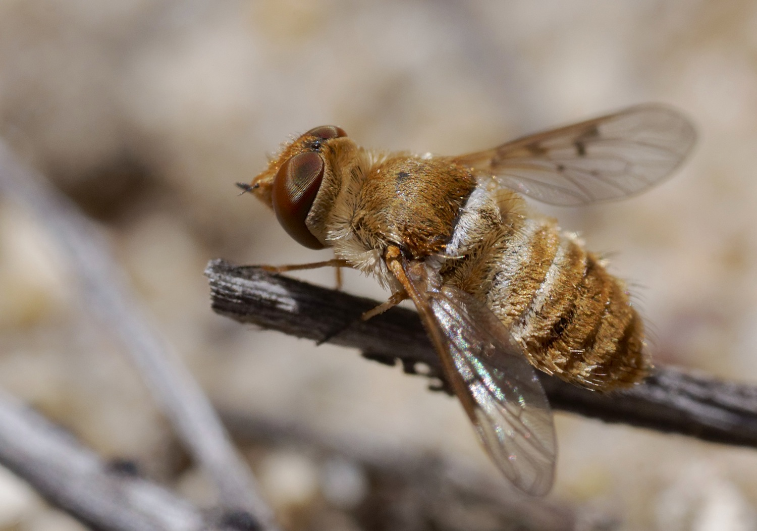 A female Lepidanthrax in Cuyama Valley, California, one of the genera with the smallest adults in the family